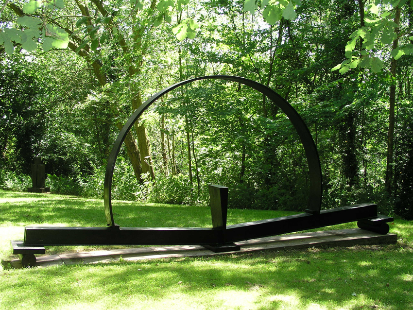 Steel, 7'7" X 17'7" X 1'1".